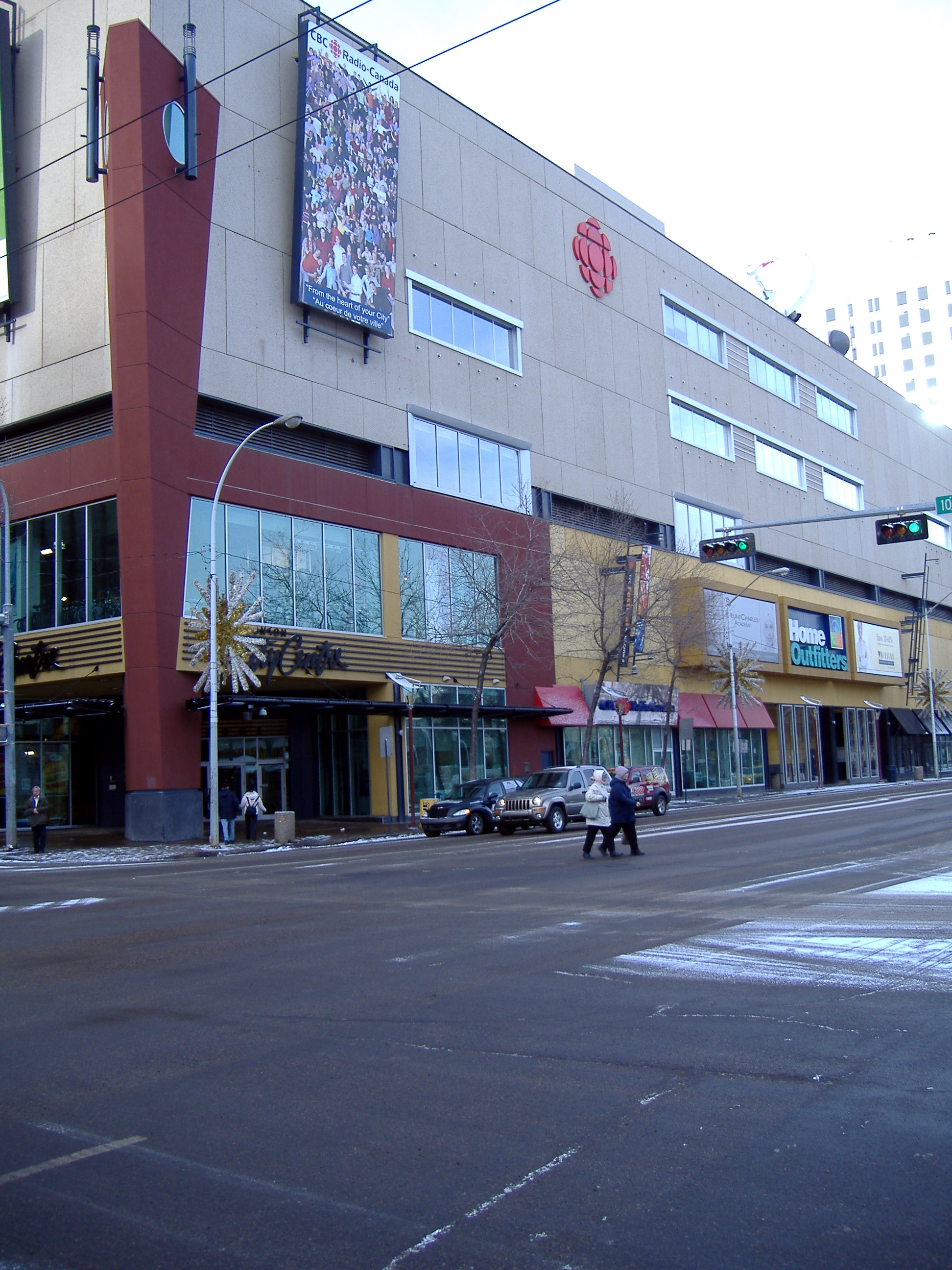 Taken on January 7th, 2006 at 1:30 PM.